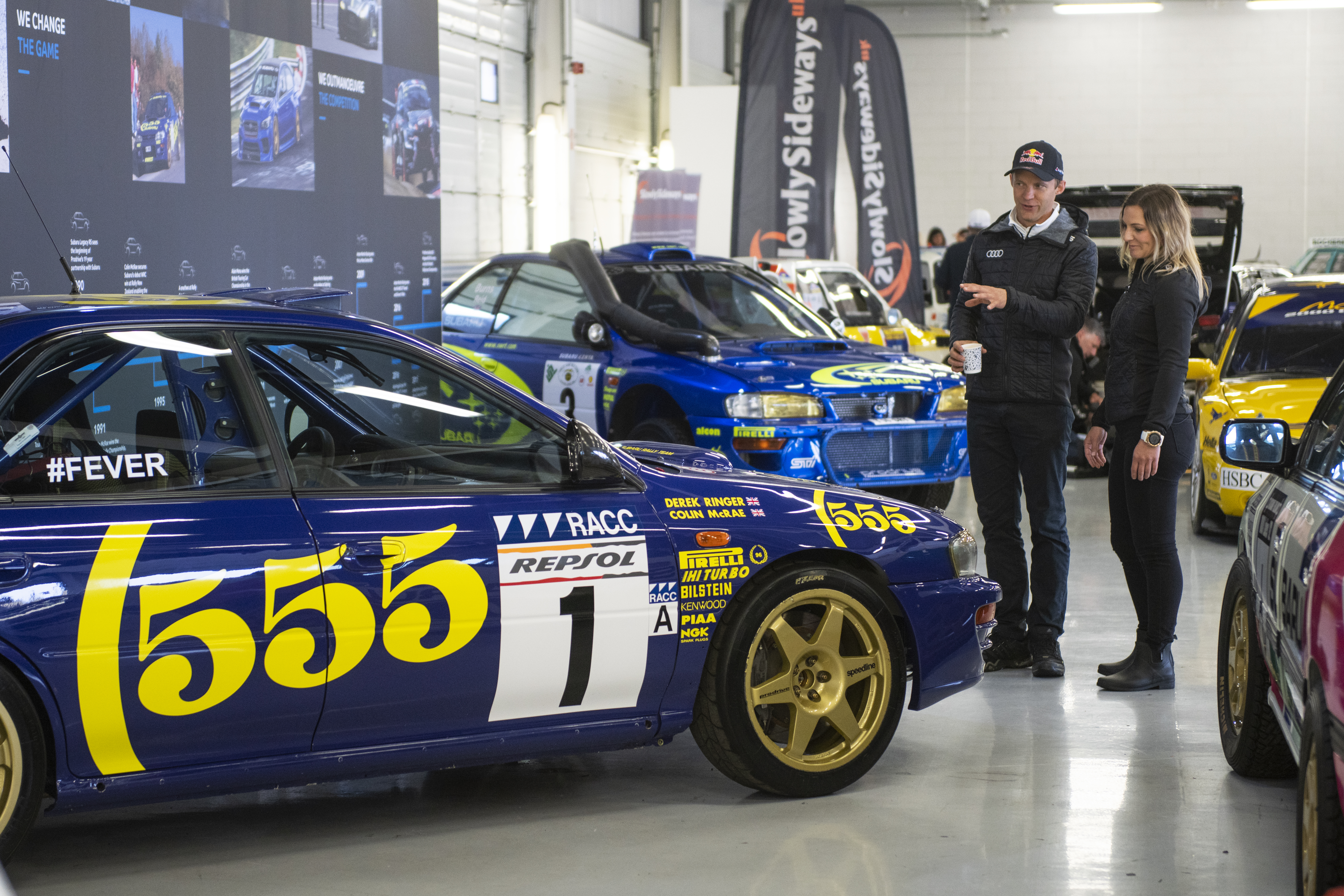 2018 FIA World Rallycross Championship // Round 4, Silverstone, Great Britain // Credit: EKS Audi Sport